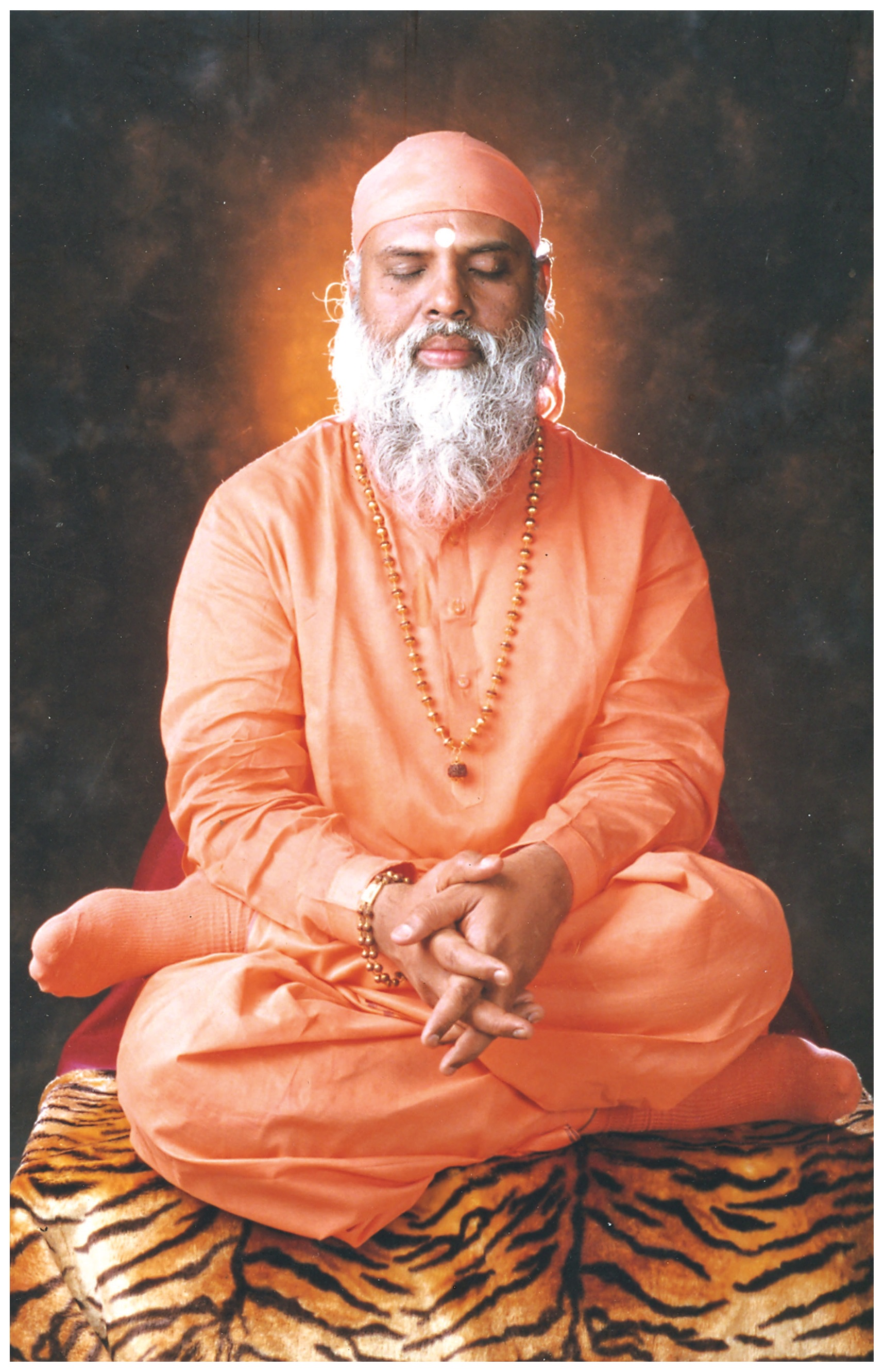 Sadhguru Swami Sundara Chaitanyananda